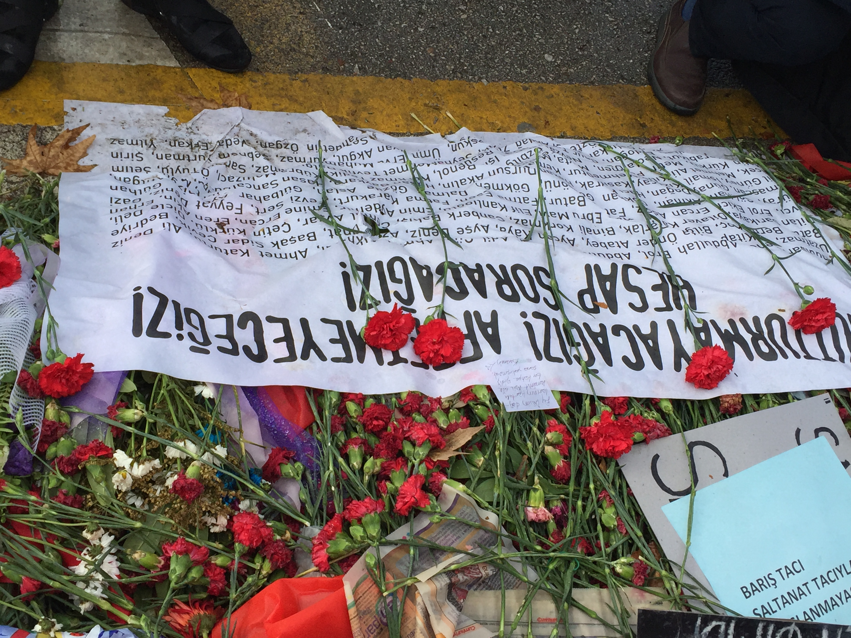 Mourning after the 2015 Ankara bombings: flowers in front of the Central railway station